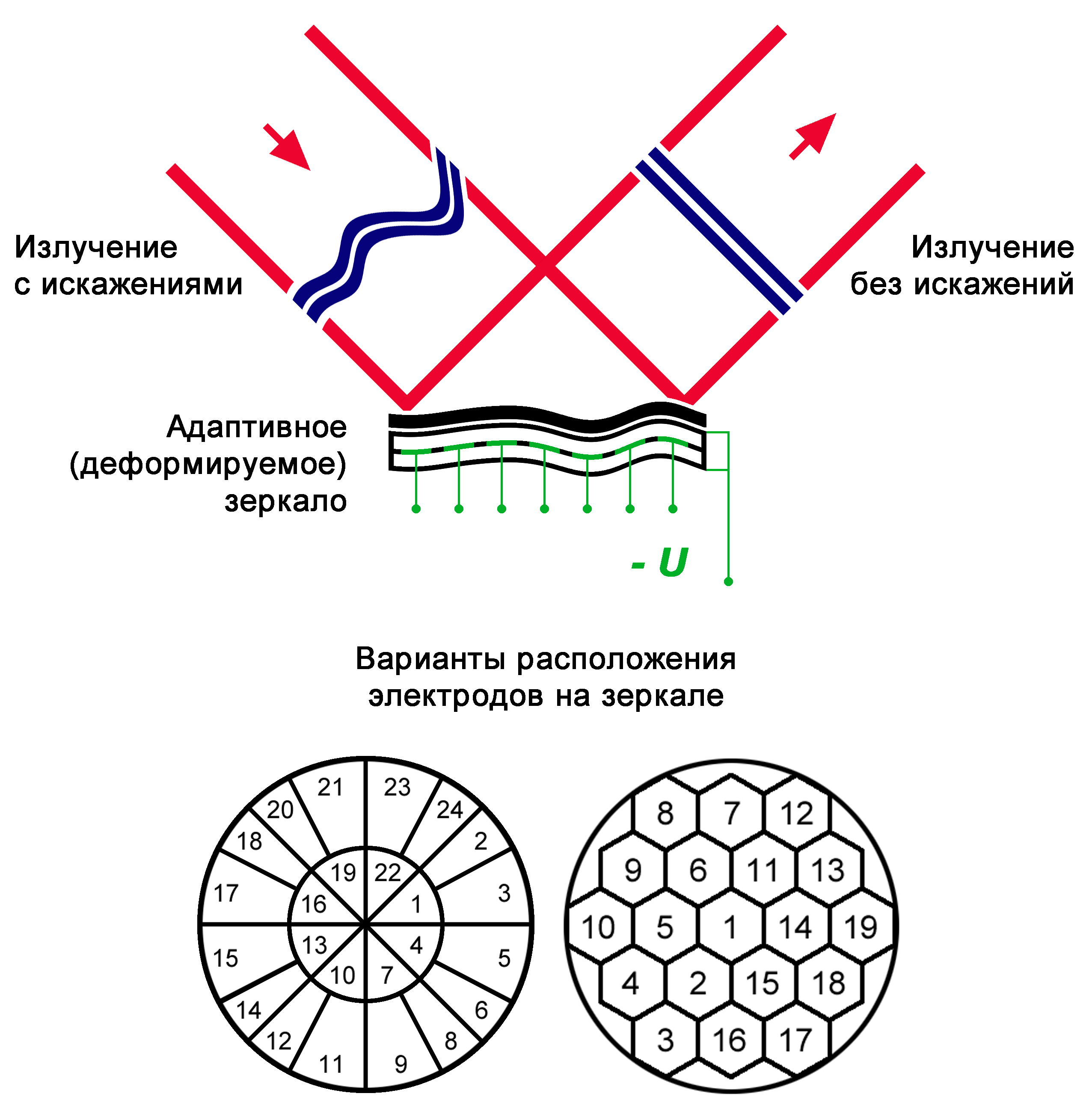 Scheme of Deformable Mirror